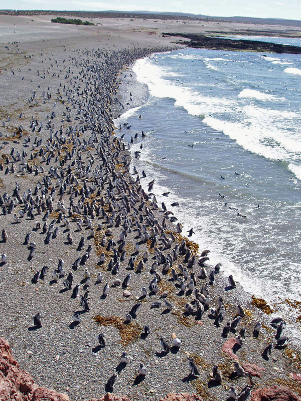 Penguin colony at the Punta Tombo reservoir, Chubut, Argentina. Picture taken by me in 2004. Mariano 13:18, 7 February 2007 (UTC)